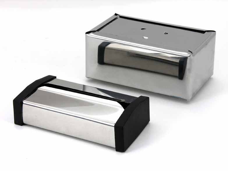 Napking Holder servipress and zig-zag for ice cream parlor